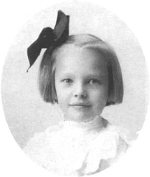 Childhood portrait of Amelia Earhart